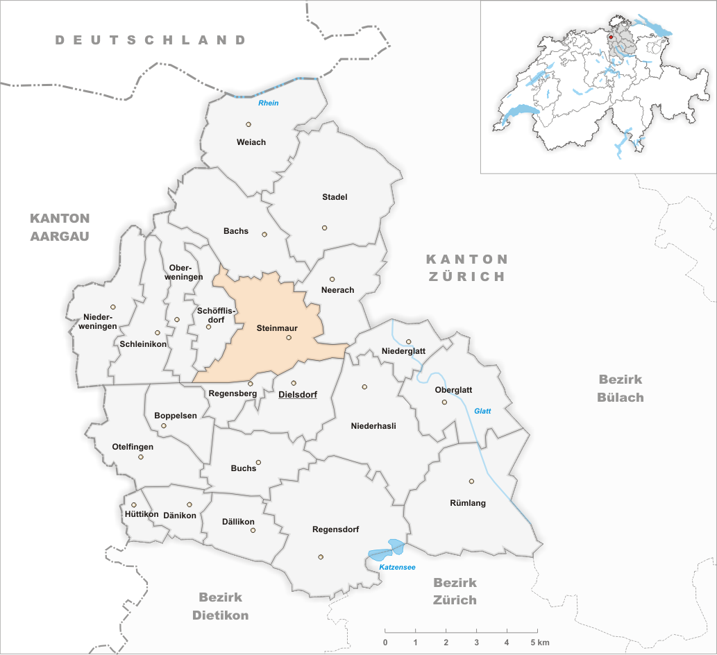 Municipality Steinmaur